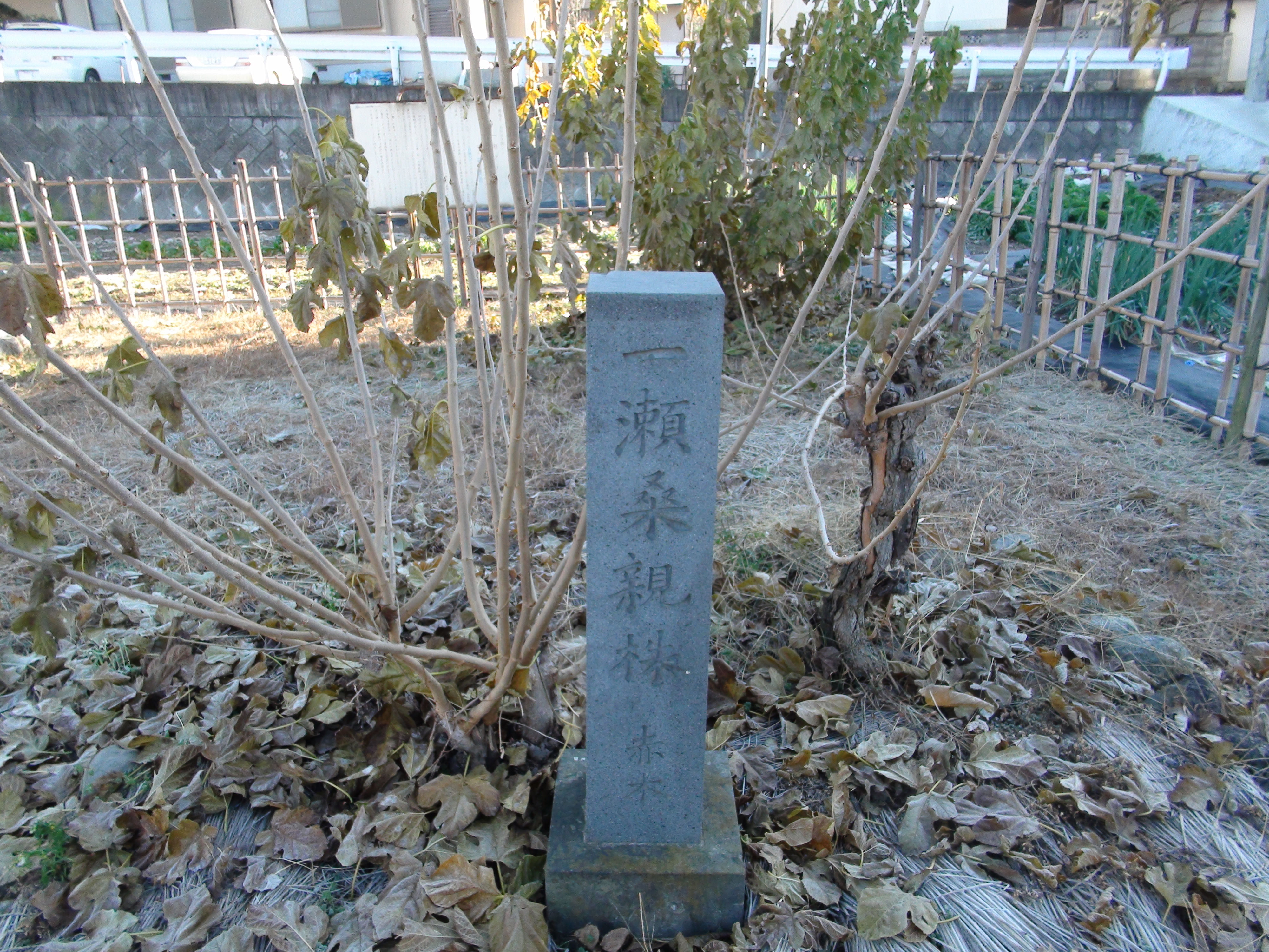 Origin red mulberry trees Ichinose